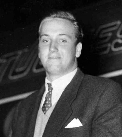 Arrival of José Manuel Quina to Portugal after 1960 Olympics